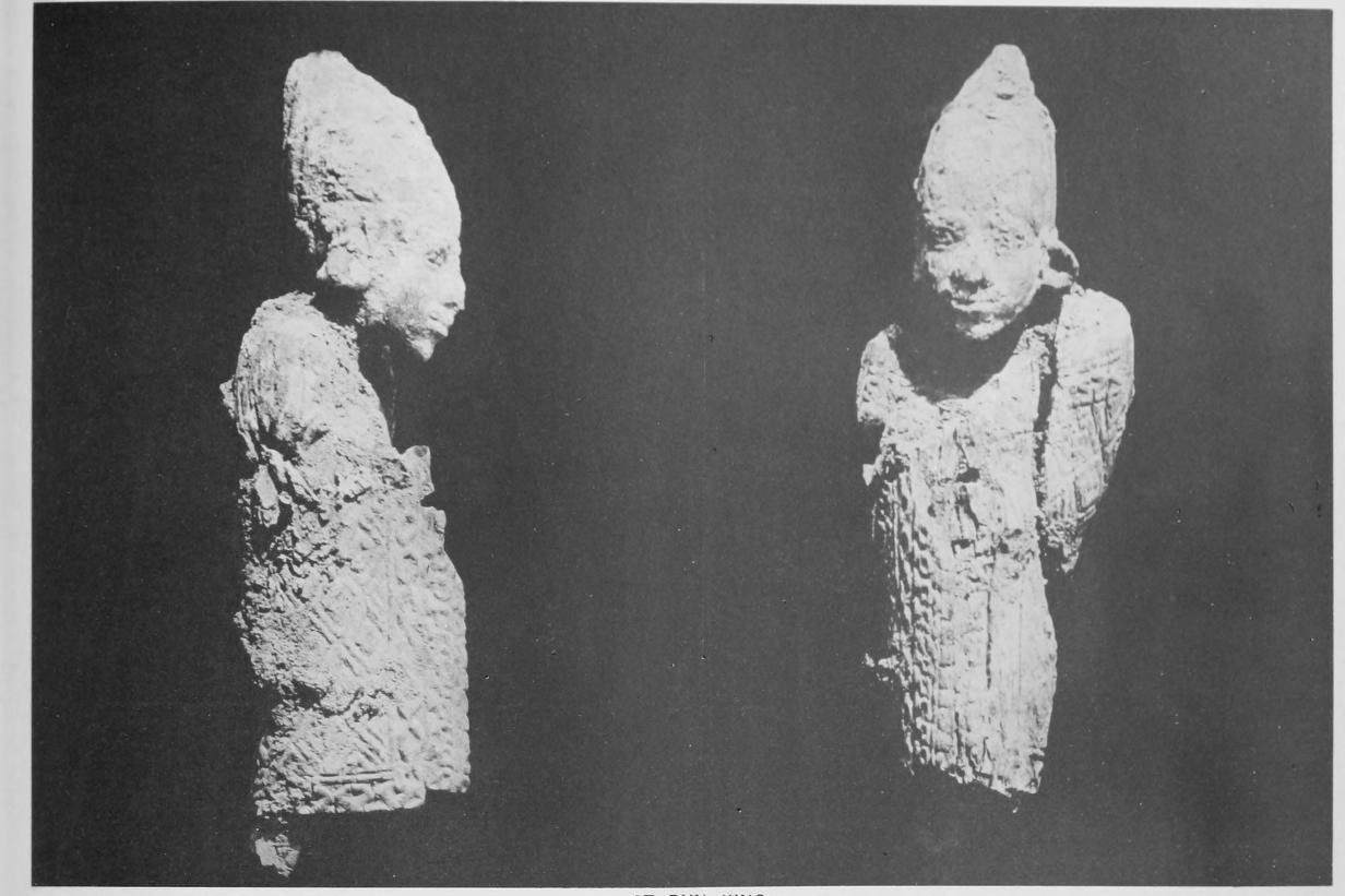 Statuette of the so-called "Ivory King", an unnamed pharaoh of the 1st or 2nd dynasty. Carved ivory, from the Temple of Osiris at Abydos, now at the British Museum (EA37996). More info here.